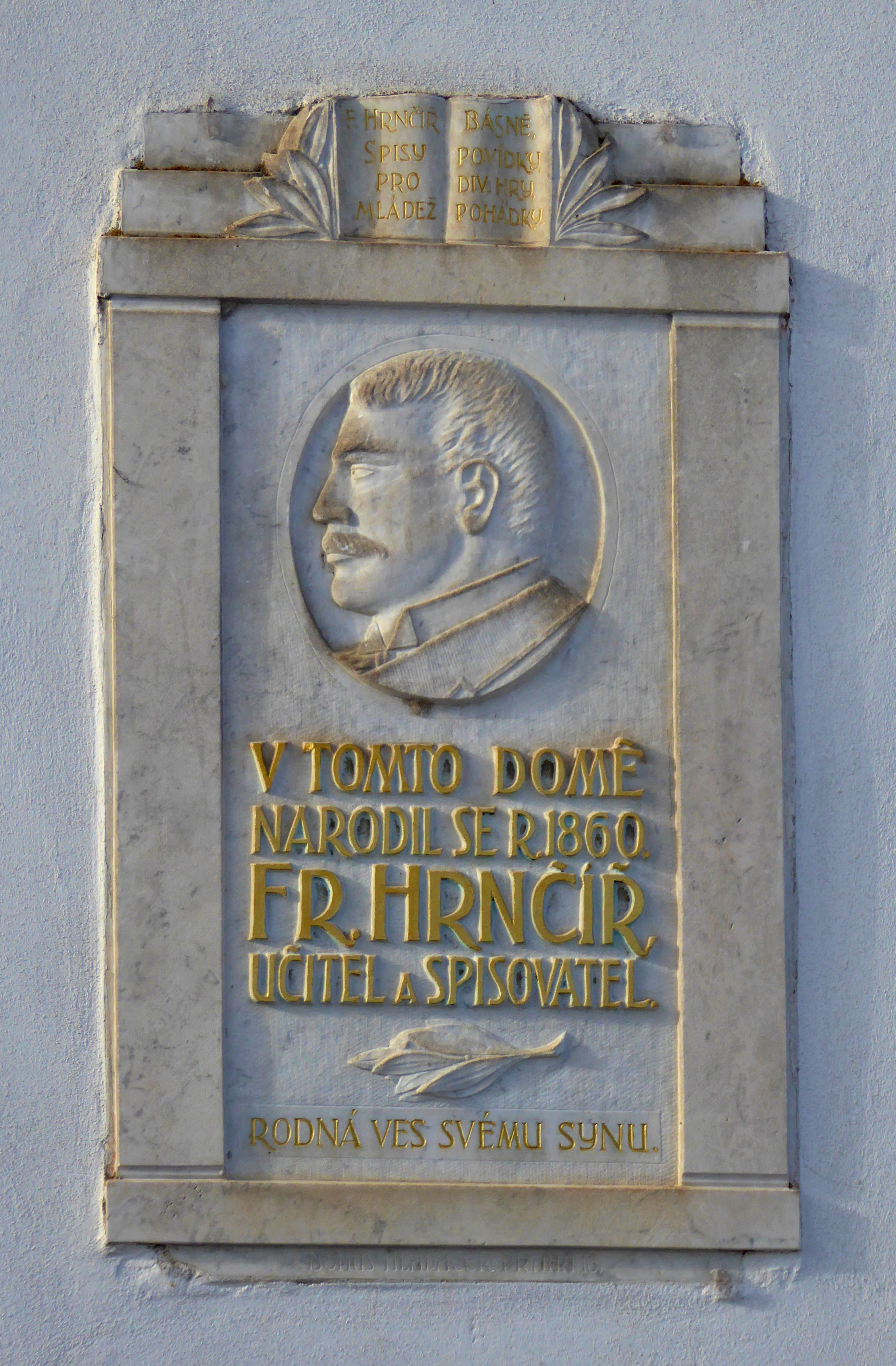 A memorial plaque of "František Hrnčíř" on the house number 9, standing on the village green in the small hamlet of "Dřevíkov", in part of the municipality of "Vysočina". "František Hrnčíř" (1860 – 1928) was a teacher and a writer, profiled as a czech patriot, the work especially for youth (poems, plays, fairy tales, short stories) and of historical character, for example Pictures from Czech History (1888), Europe (1899), The History of the Czech Nation (1911), etc., more than 800 published works. A book was published about the life and work of the teacher and writer in 2009 with name: František Hrnčíř (1860-1928) a symbol of Czech teachers, author Karel Rýdl, publisher The University of Pardubice. Photo location: Czechia, Pardubice Region, municipality Vysočina, hamlet of "Dřevíkov".